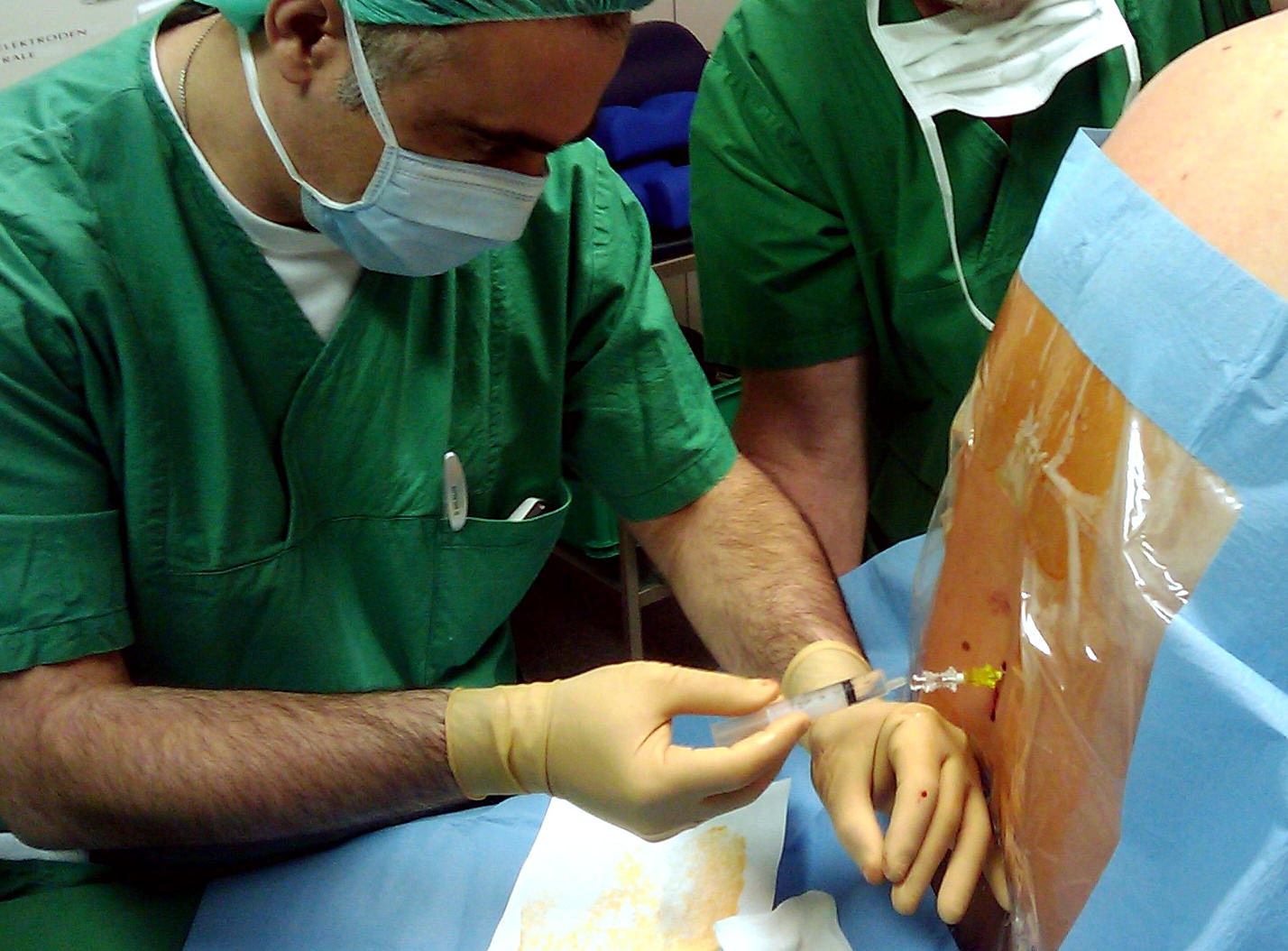 Spinal anaesthesia: "No drop no anesthesia"